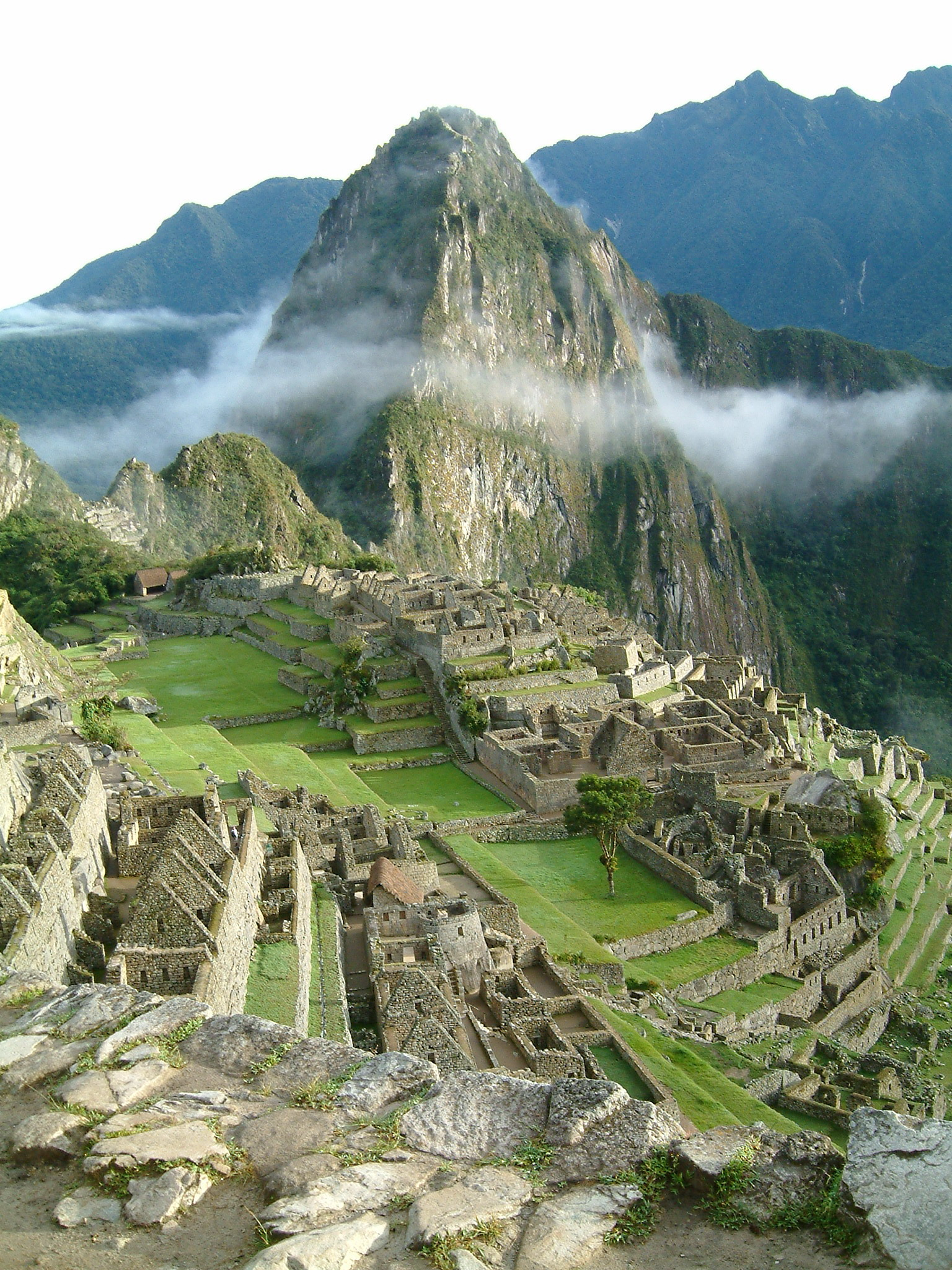 Allard Schmidt: "This picture was taken at sunrise, after hiking ahead of the group towards Machu Picchu I found Machu Picchu empty, Wayne Pichu was covered in clouds. After waiting 10 minutes the clouds dissolved beautifully resulting in this picture. Unfortunately, the moment the thin clouds covered Wayne Pichu was very short, there was no time to change the camera light exposure settings in order to correct the overexposure."